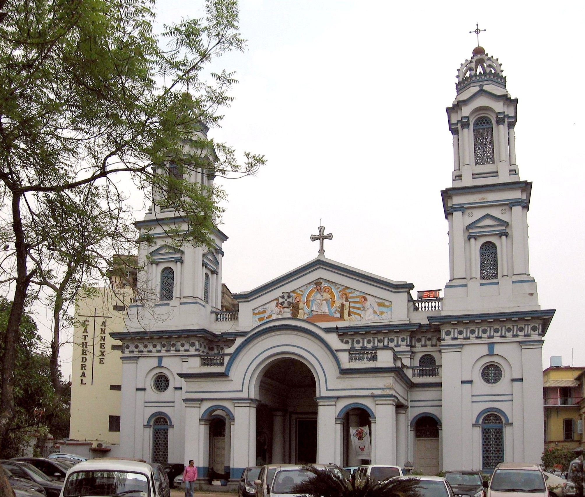 The Catholic Cathedral of Calcutta (India) is situated in one of the most busy areas of the city.